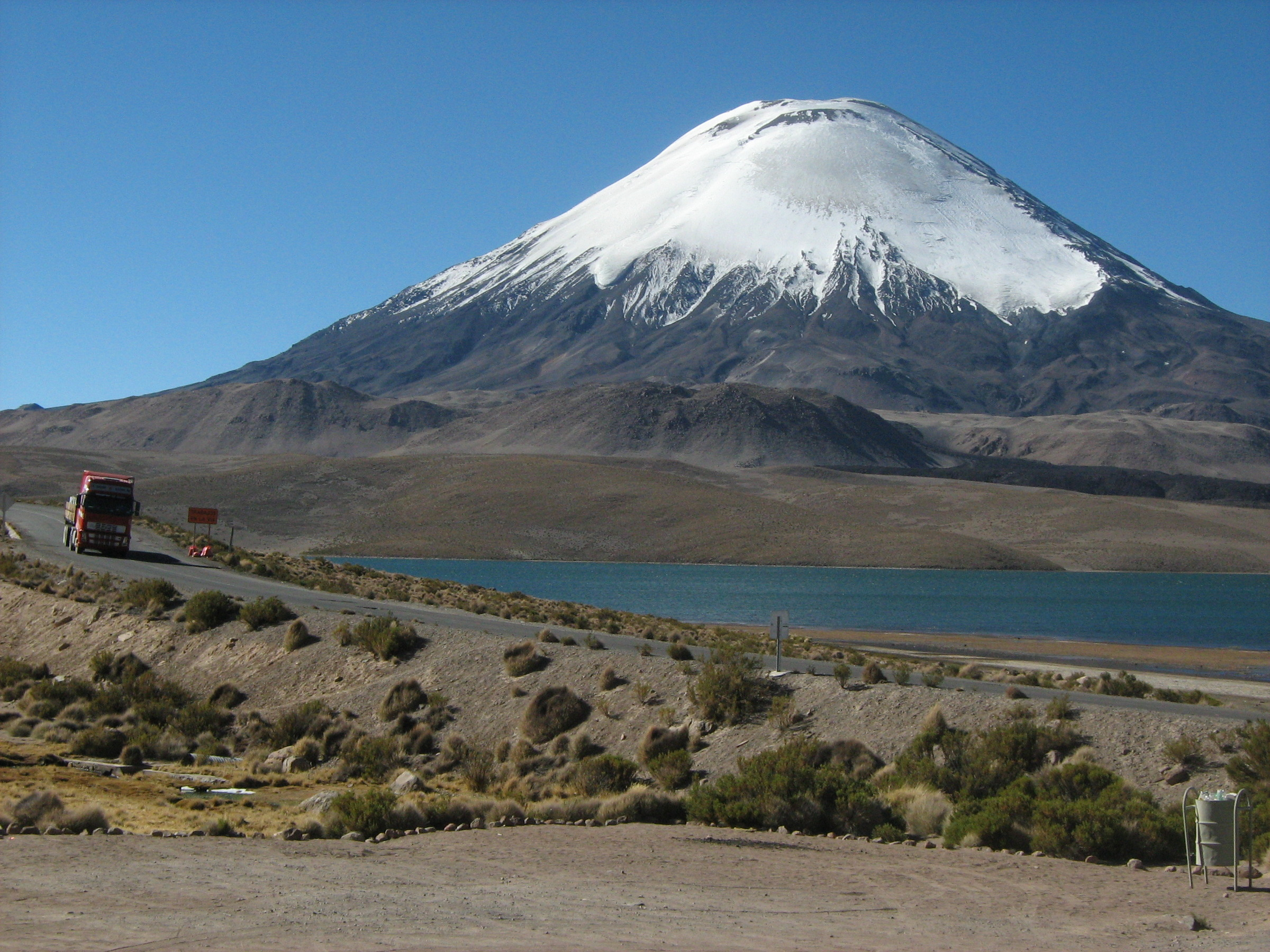 The Ruta 11 along the shore of Chungará Lake on the foot of Parinacota.